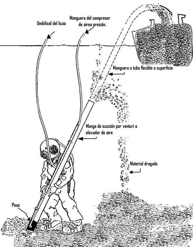 Air lift and dredges